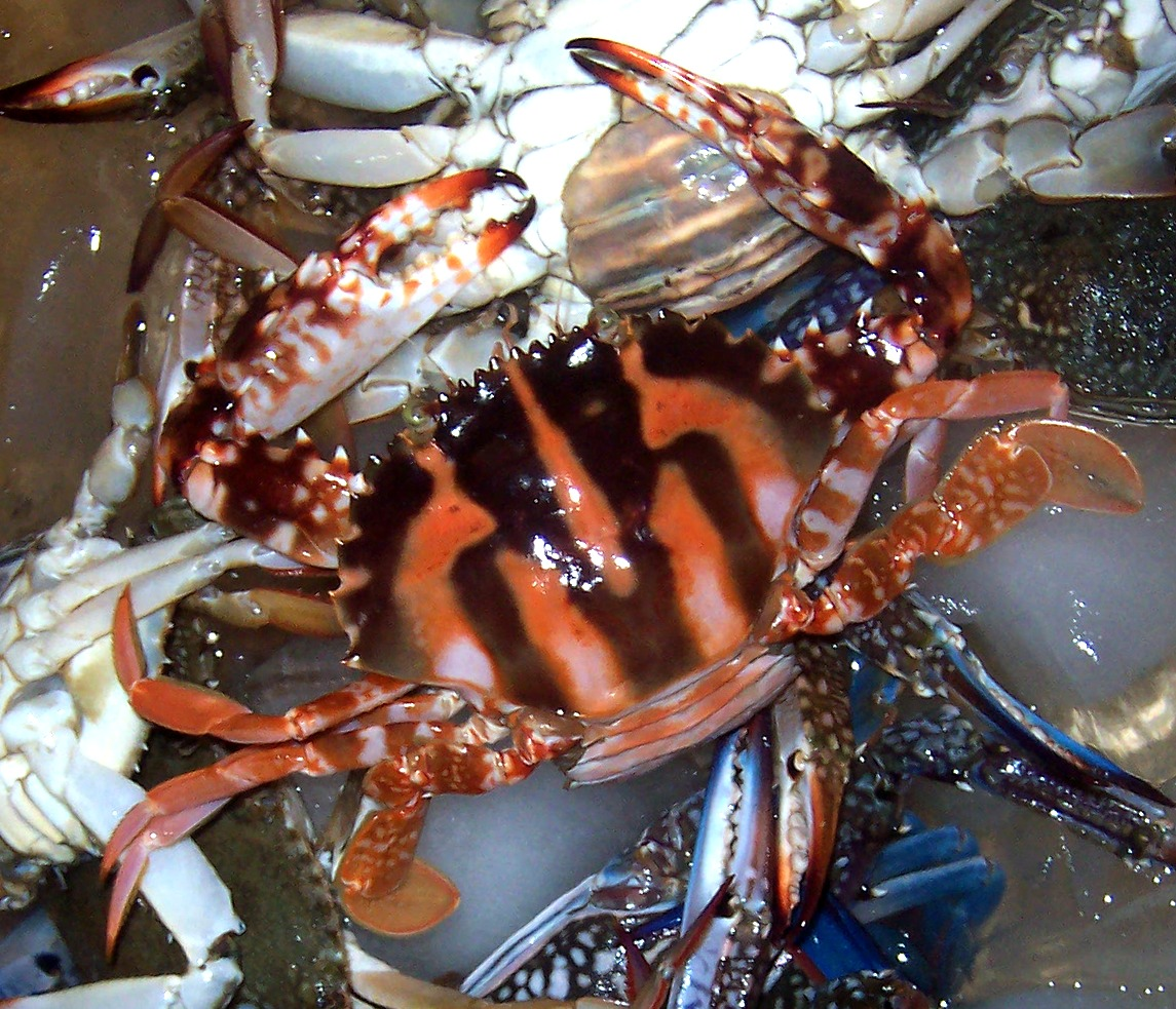 Charybdis feriata; among other swimming crabs. Sold in Palabuhanratu, West Java, Indonesia.